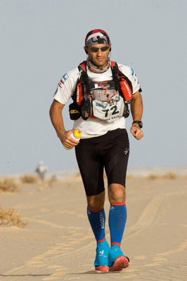 Sahara Race